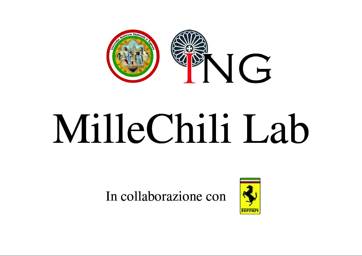 Millechililab Nameplate